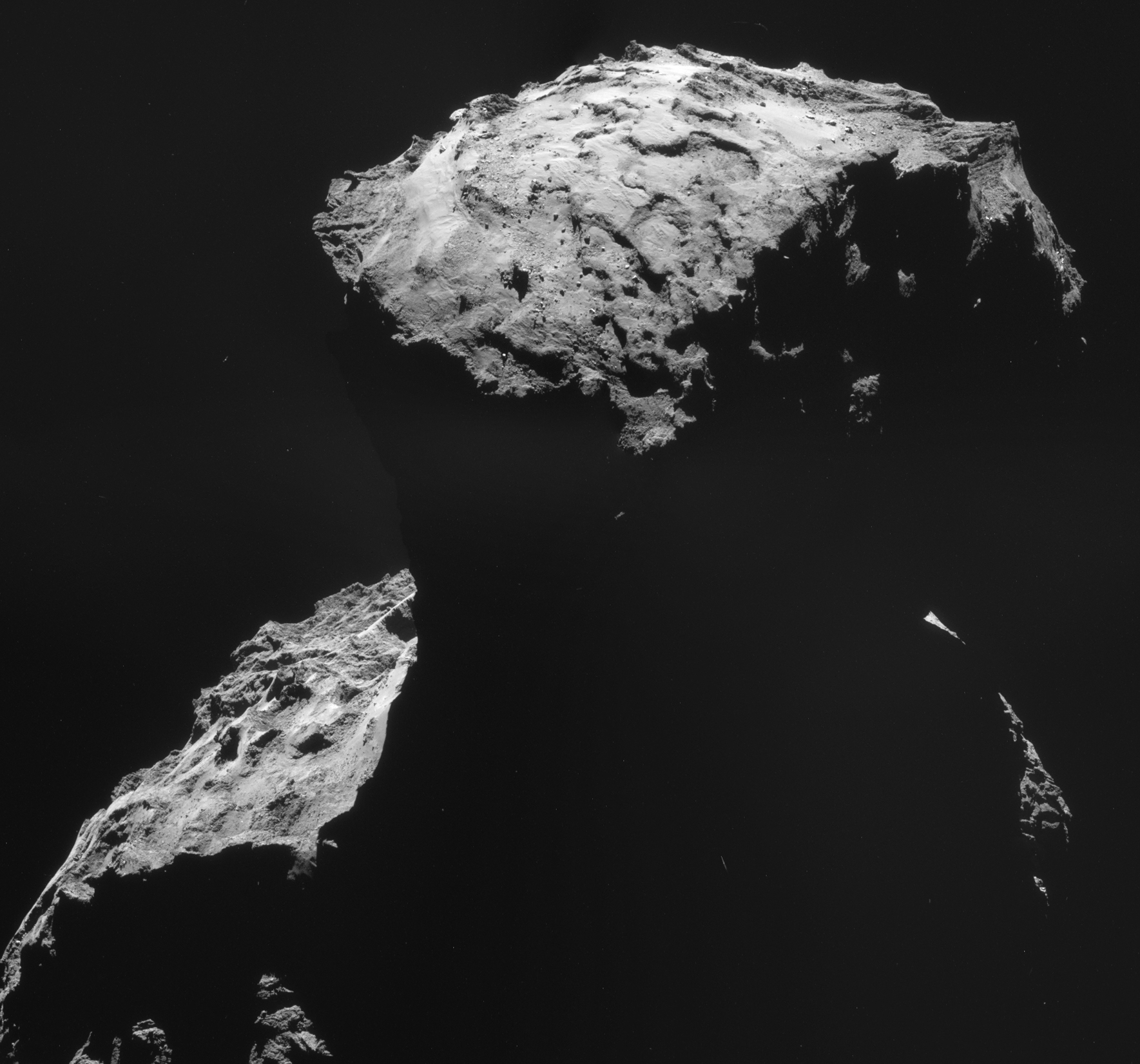 This four-image NAVCAM mosaic shows Philae’s landing site as Rosetta departed its 10 km orbit last week in order to prepare for the deployment of Philae on 12 November 2014. The images comprising this montage were taken on 30 October, when the spacecraft was 26.8 km from the centre of the comet. The image resolution at this distance is 2.27 m/pixel, and the mosaic covers 4.0 x 3.7 km. The four individual images making up the mosaic are available via the blog : CometWatch 30 October – Farewell J